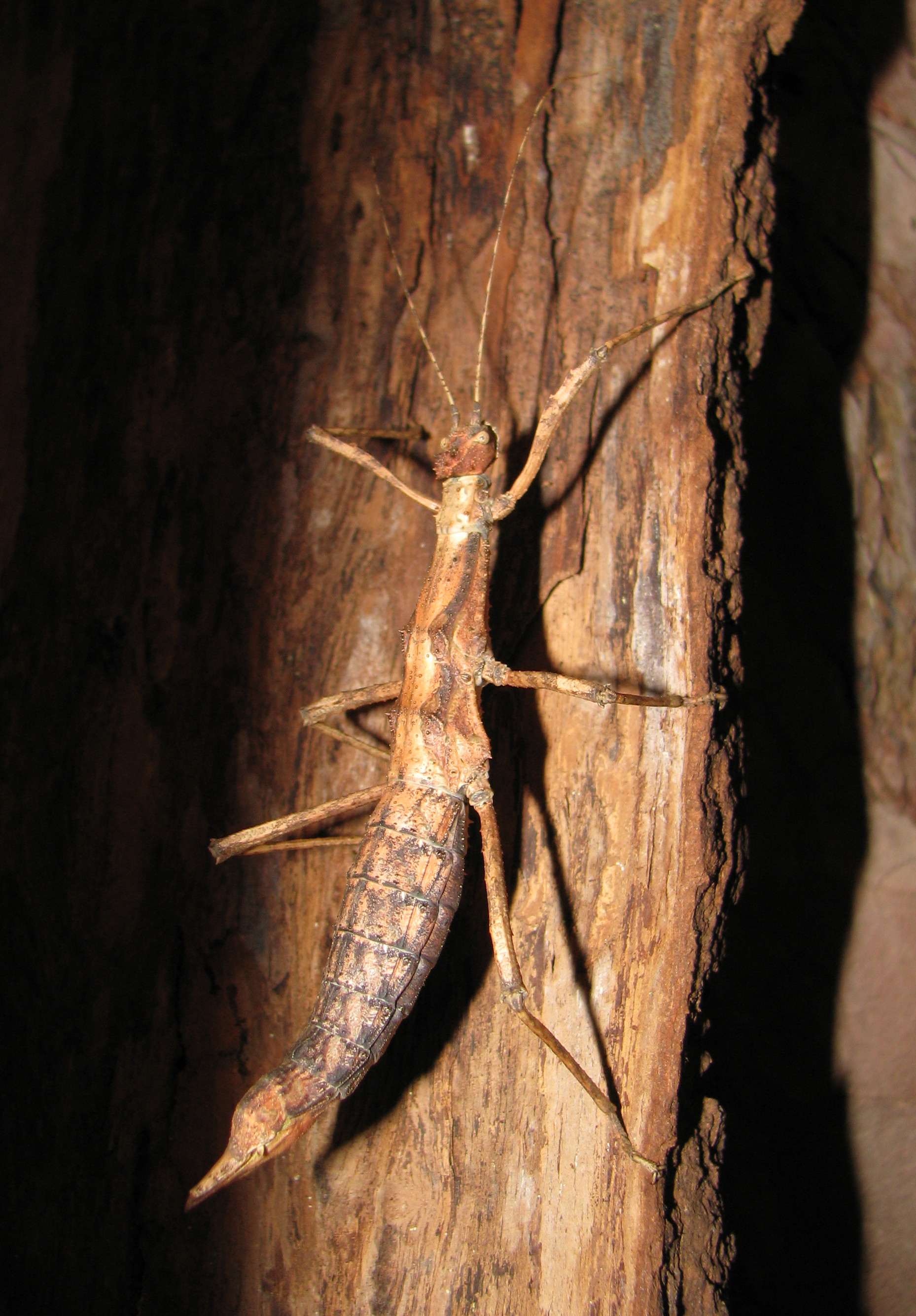 older female of Sungay Stick Insect (Sungaya inexpectata)